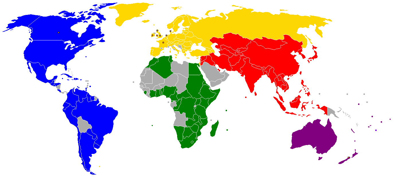 International Badminton Federation member nations, as listed on wikipedia. Orange squares show original members from 1934.